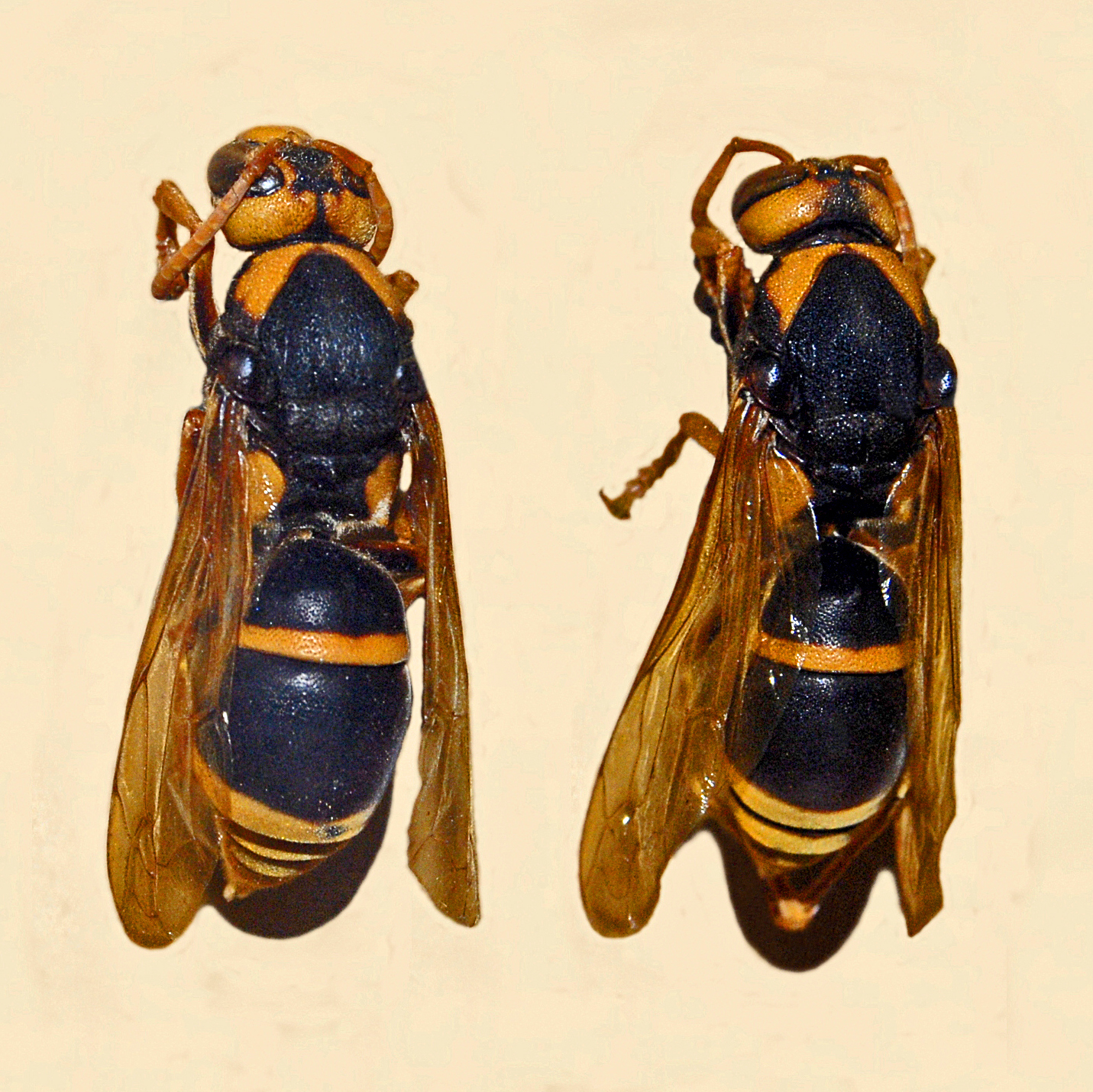 Abispa splendida from New Guinea. Museum specimen